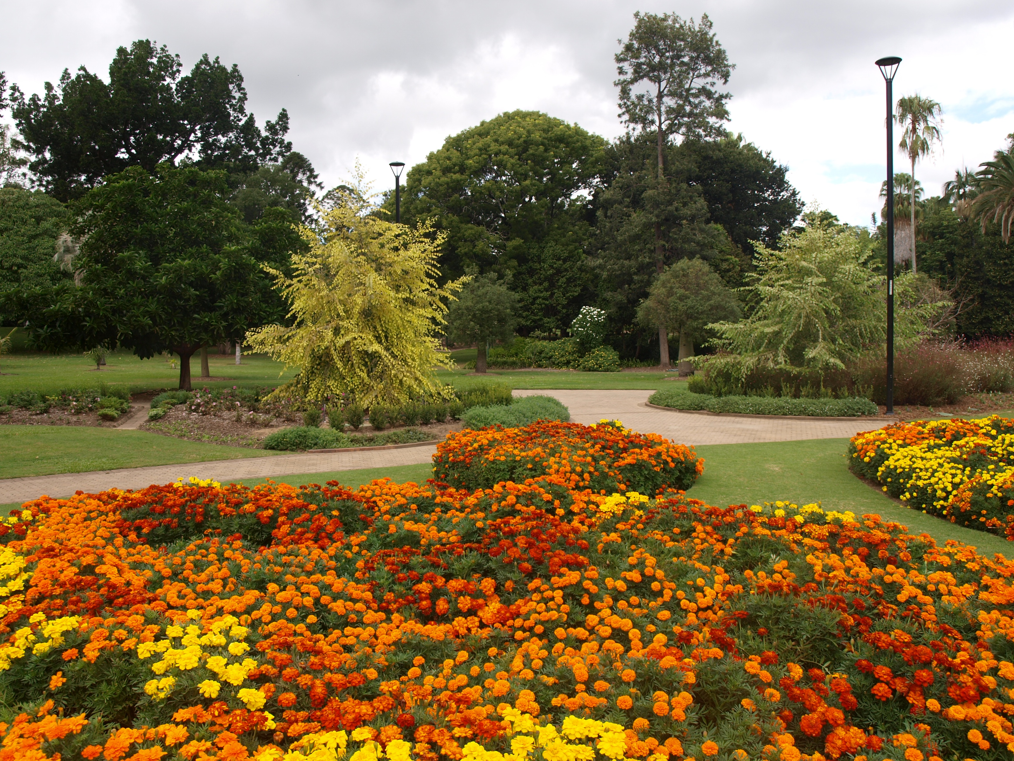 City Botanic Gardens, Brisbane